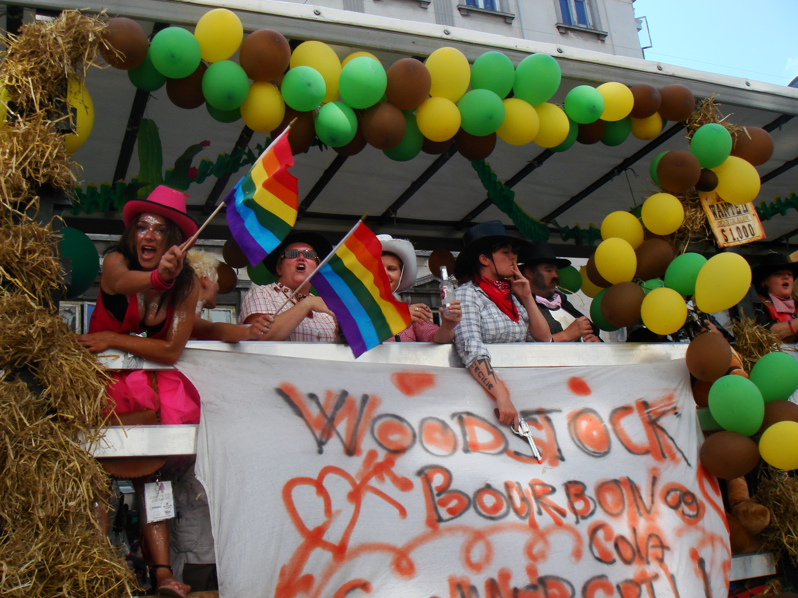 Copenhagen gay pride 2008. Picture by Stefano Bolognini.